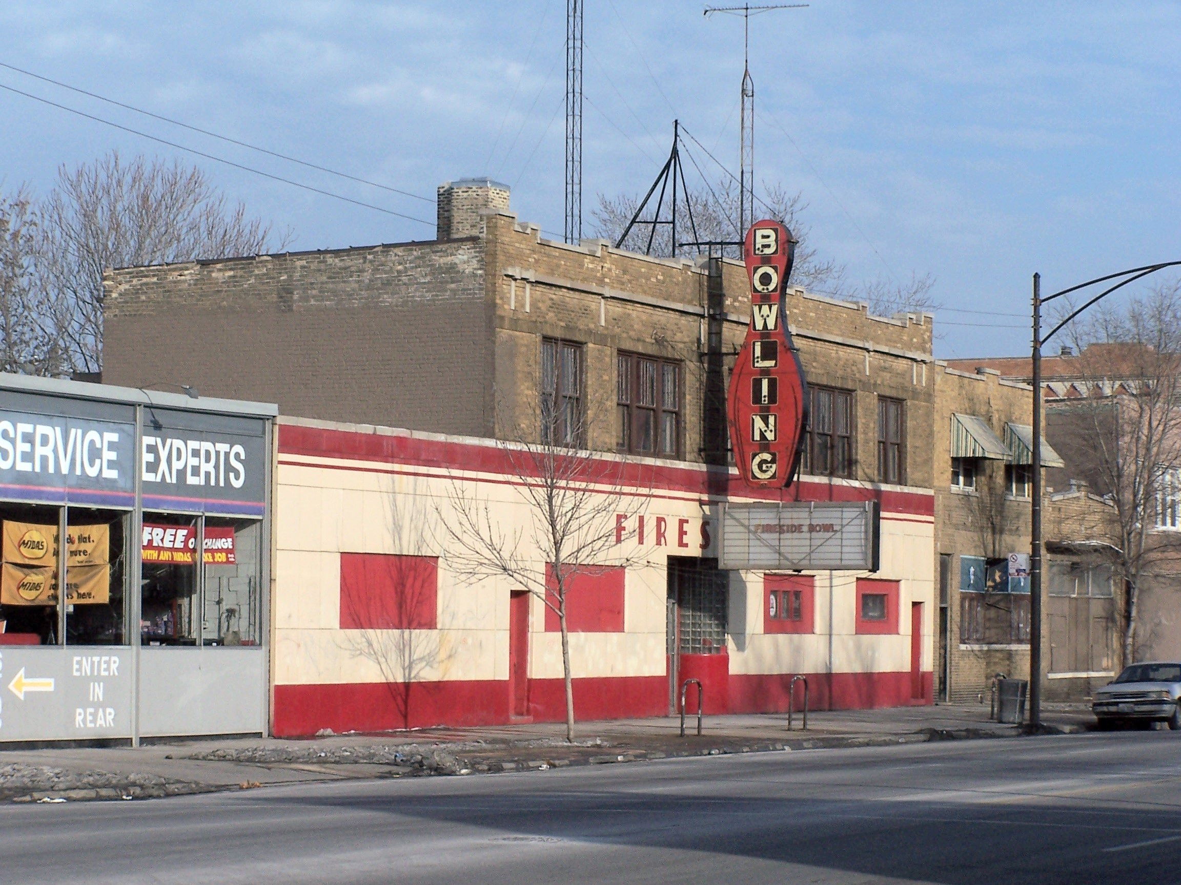 Fireside Bowling Alley, 2648 W. Fullerton, Chicago Illinois.